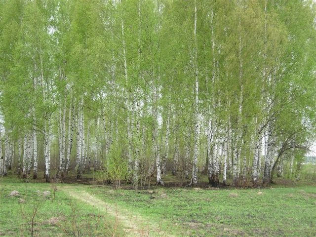 Betula Forest in Russia